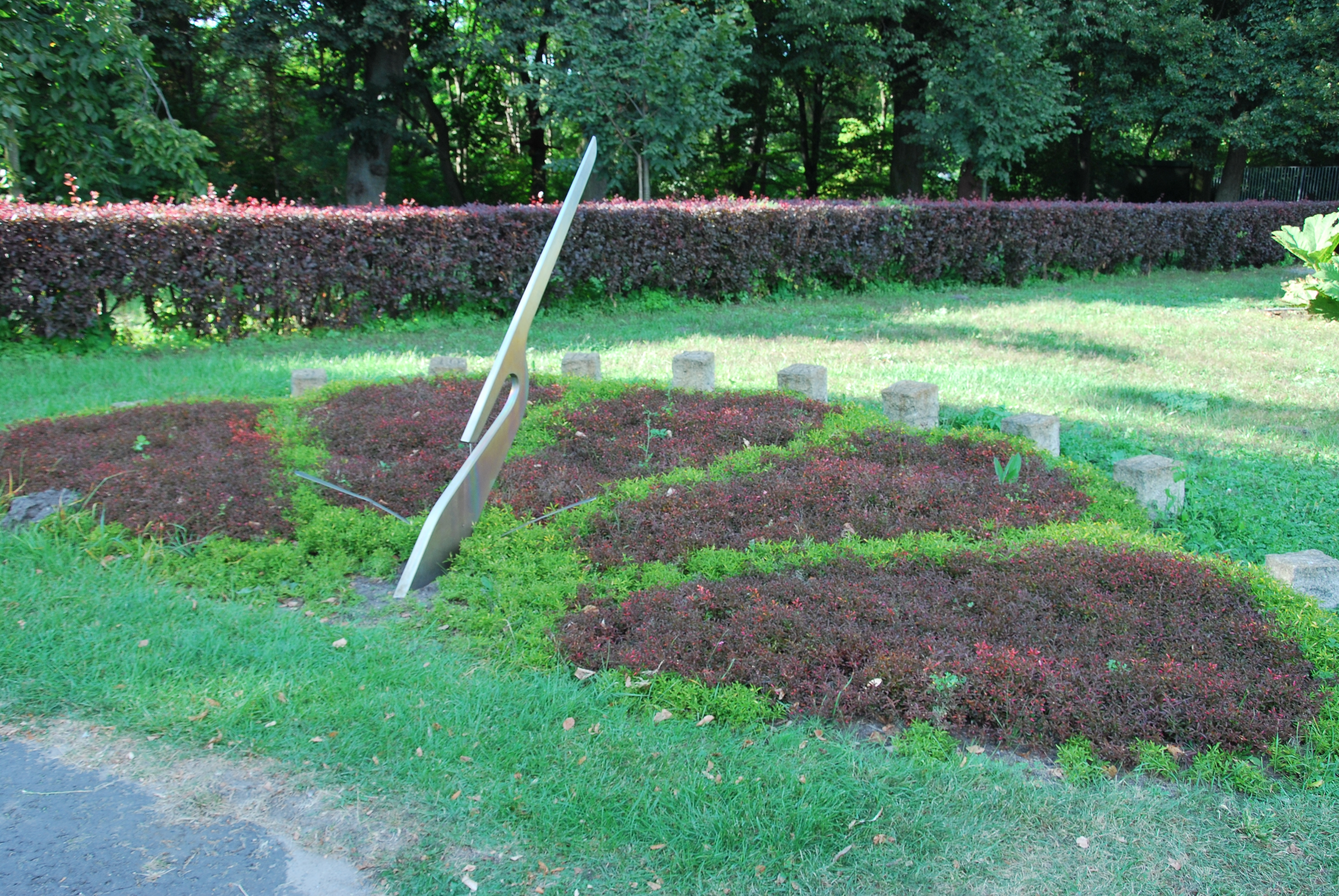 Floral sundial, Botanical Garden Łódź